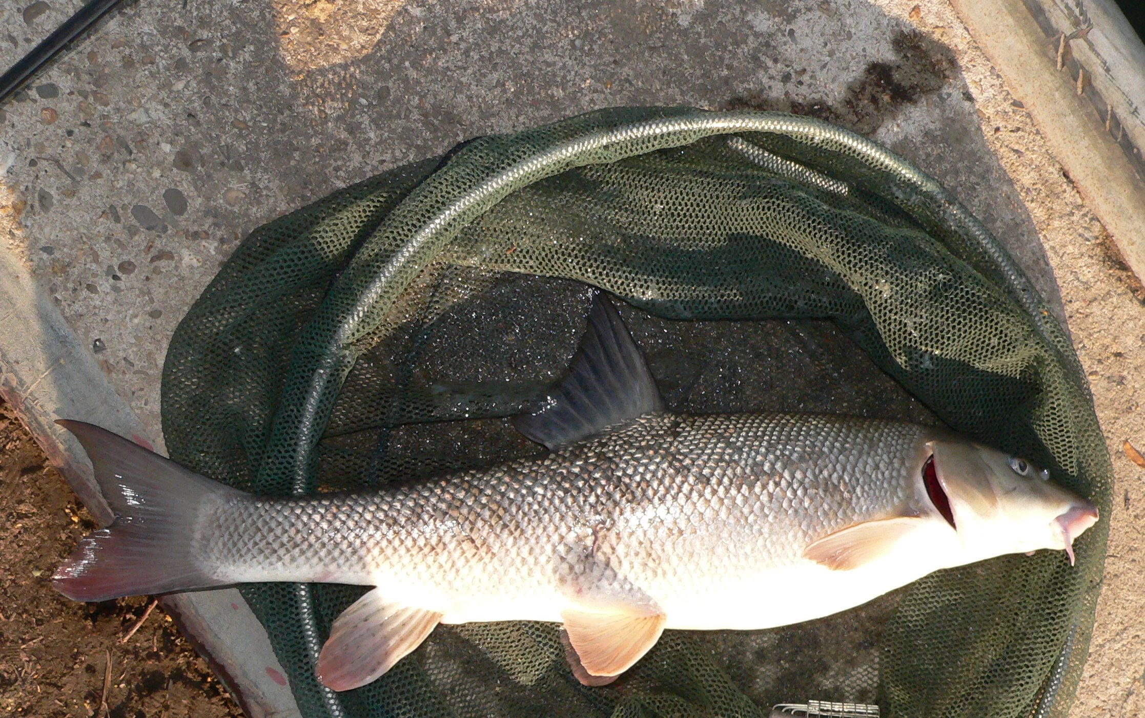 56 cm Barbel (Barbus barbus) from the river IJssel, Gelderland, The Netherlands.